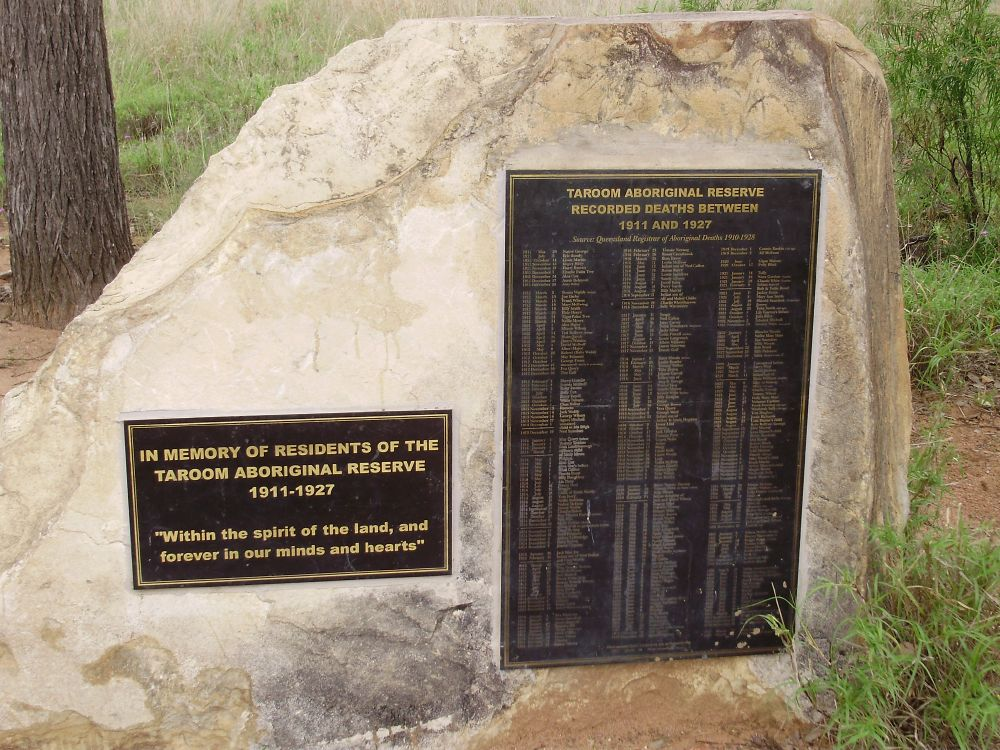 Memorial, Taroom Aboriginal Settlement (former) (2010)